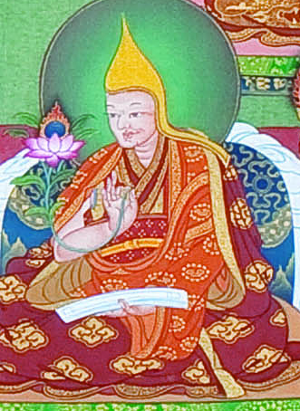 Gendun Drup was considered posthumously to be the first of Tibet's Dalai Lamas, who are believed to be emanations of Chenresig (Sanskrit: Avalokiteshvara), the Bodhisattva of Compassion.